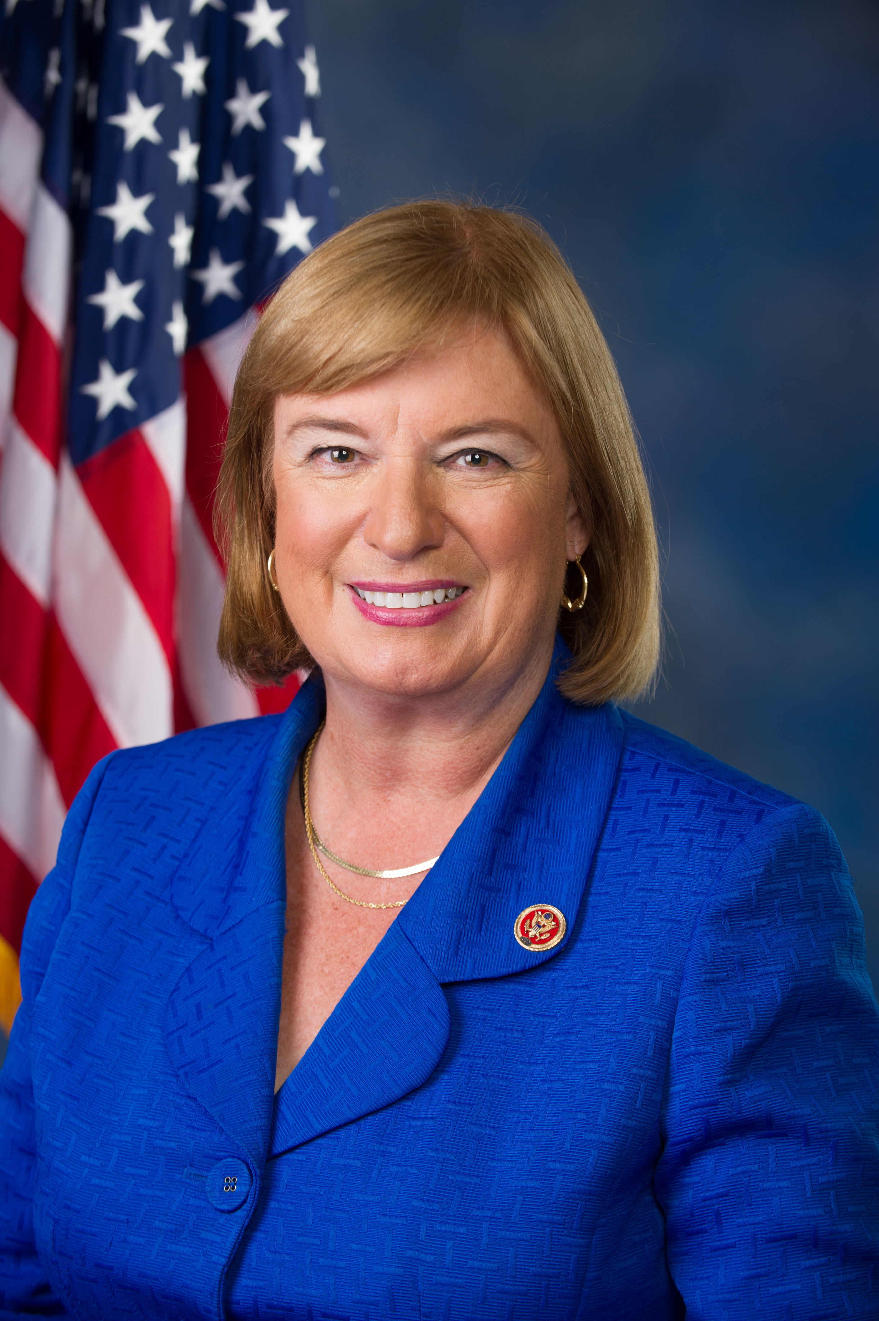 Carol Shea-Porter, member of the United States Congress.